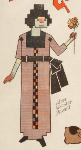 Detail of an illustration showing Alma Webster Hall Powell.